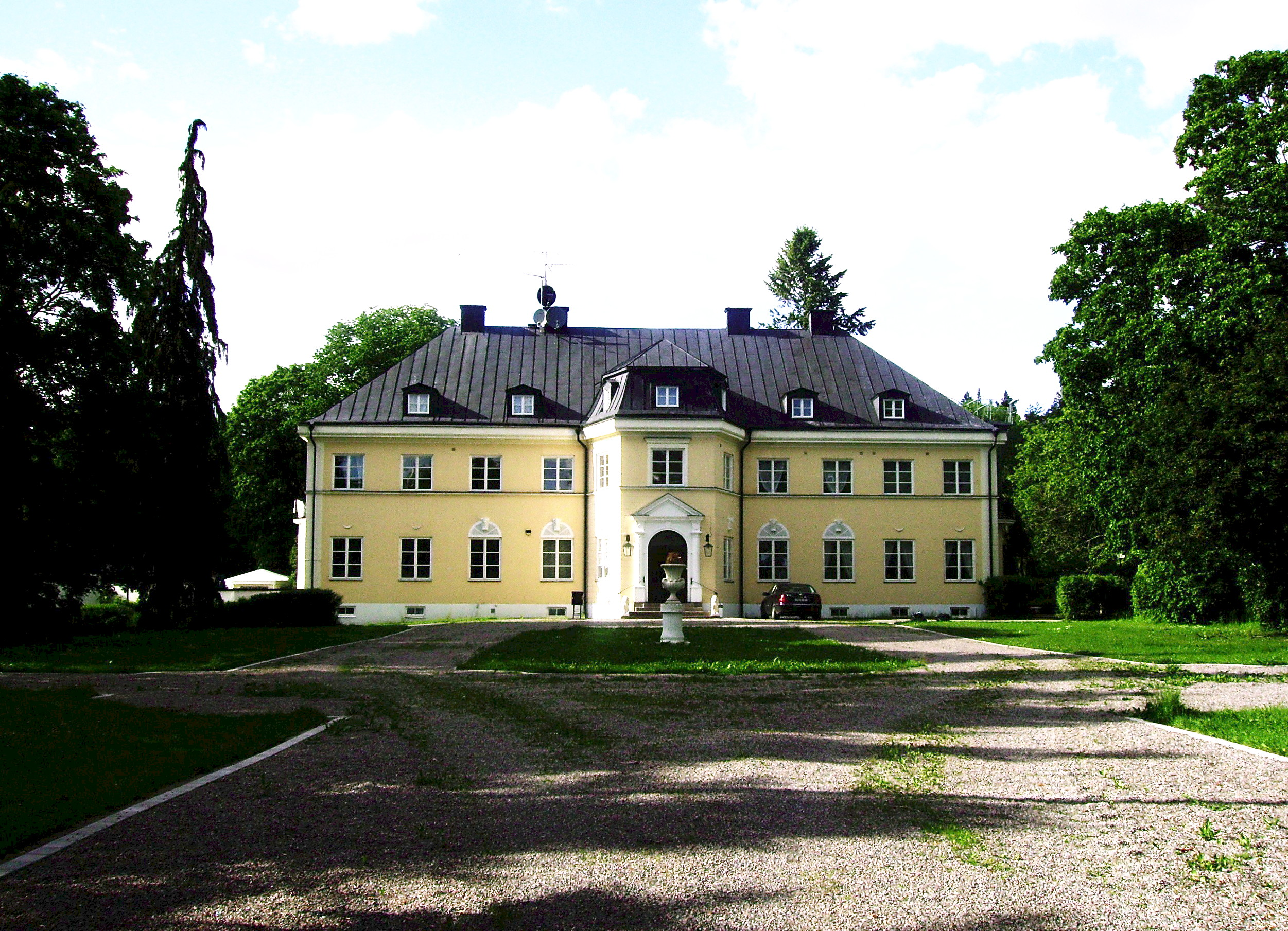 Picture of Norrtuna castle in Gnesta in Södermanland